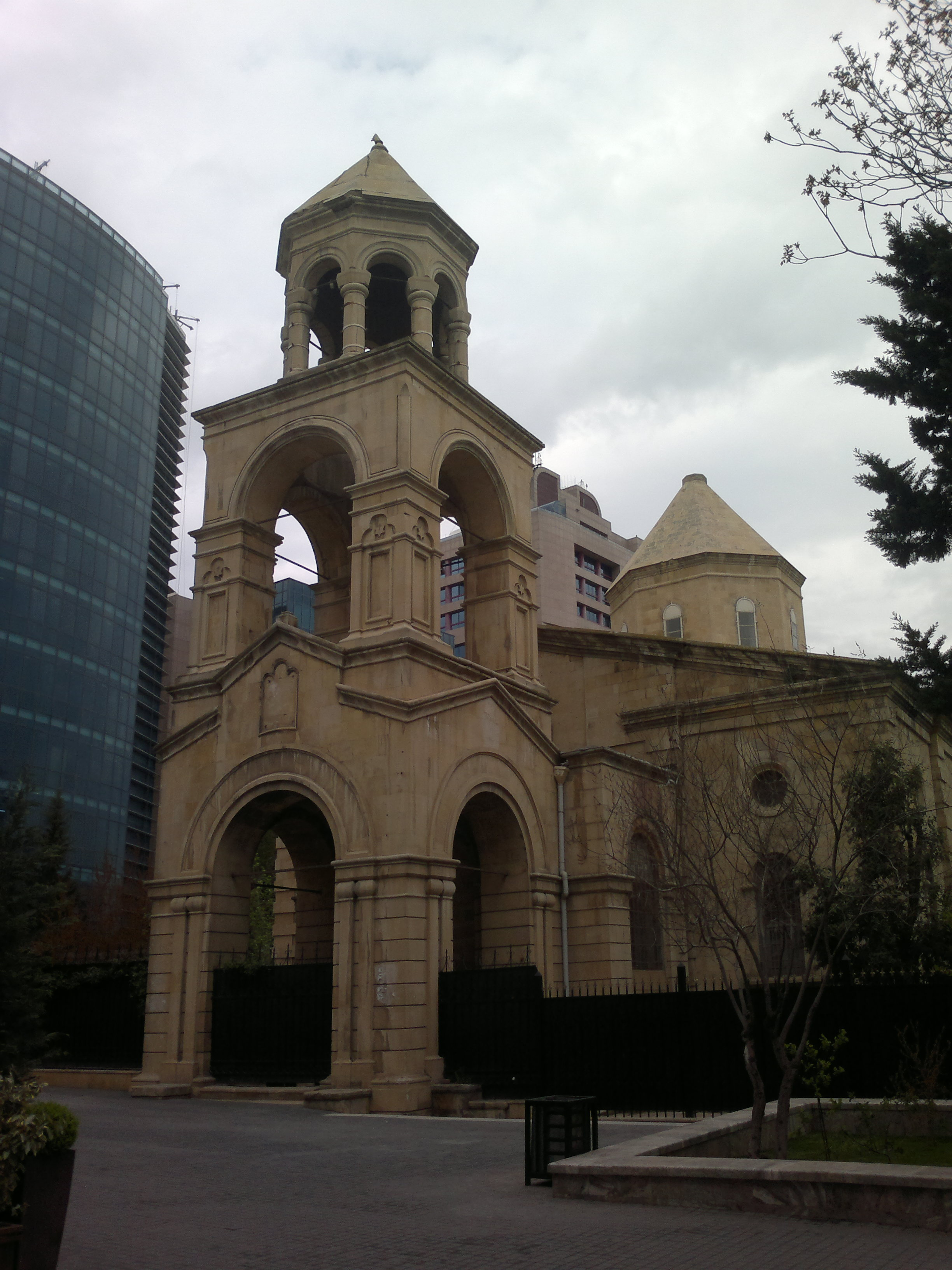 Armenian сhurch in Baku